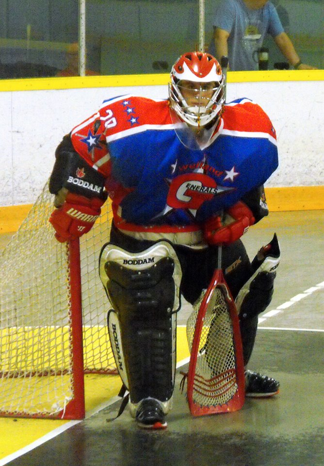 These images of Ontario Junior B Lacrosse Action action during the 2014 season are taken by Devan Mighton.